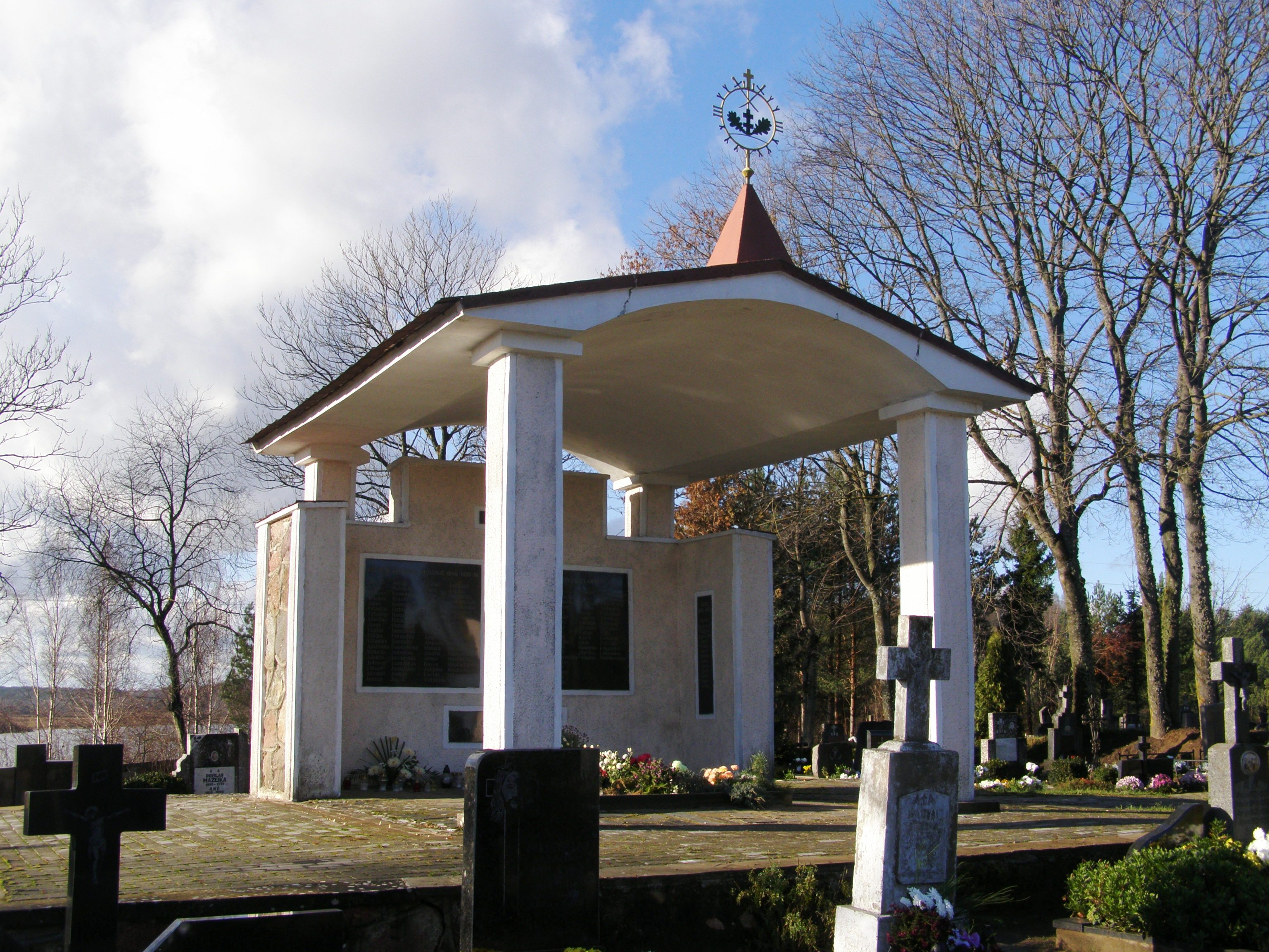 Kartena cemetery, Kretinga district, LithuaniaLietuvių: Koplyčia bolševizmo aukoms atminti, Kartenos kapinės, Kretingos rajonas, Lietuva